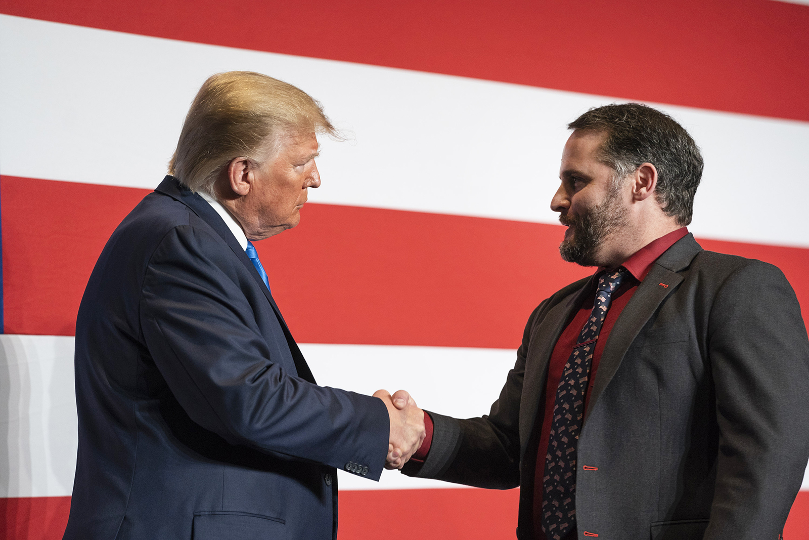 President Donald J. Trump welcomes Army Major Mathew Golsteyn to the stage prior to his remarks at the Republican Party of Florida’s Statesman Dinner Saturday, Dec. 7, 2019, in Aventura, Fla. Army Major Mathew Golsteyn was recently granted a full pardon by President Trump on November 15th, 2019. (Official White House Photo by Joyce N. Boghosian)